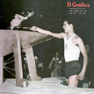 Panamerican Games 1951 - Buenos Aires